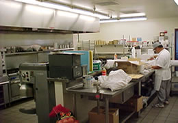 Kitchen at Yuba/Sutter Camp and Juvenile Hall, California, USA